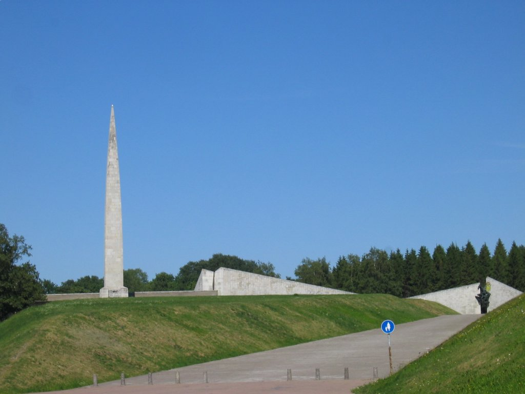 Maarjemäe War memorial, Tallinn, Estonia